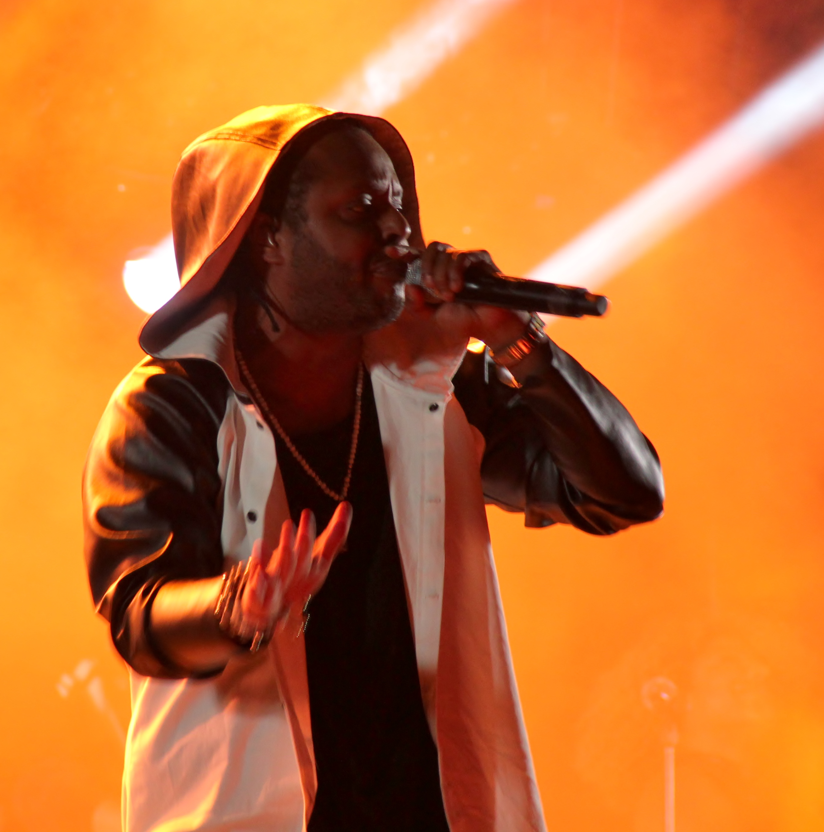 Madcons Yosef Wolde-Mariam at the 2015 Granittrock in Oslo